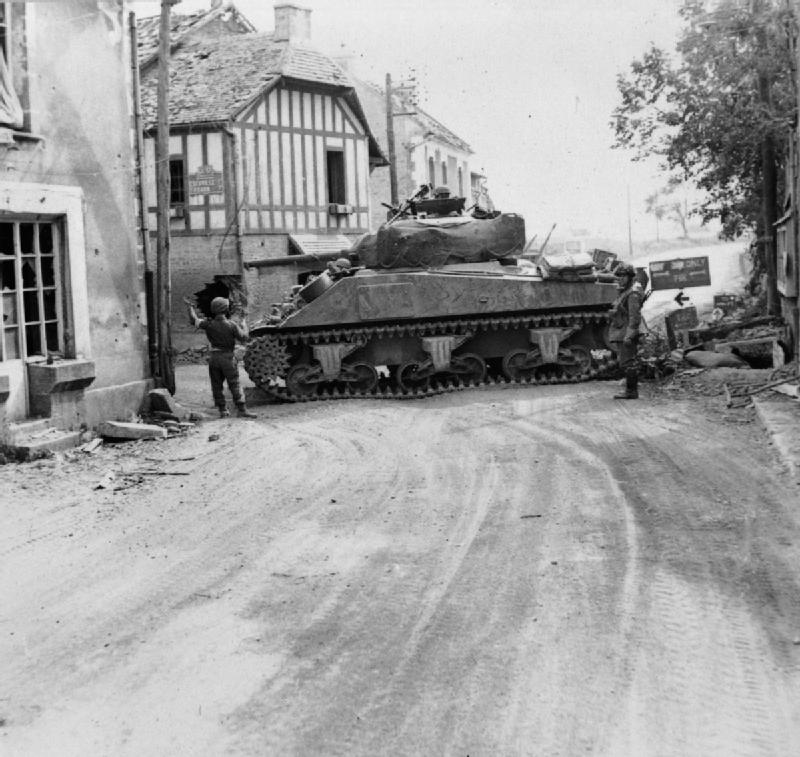 The British Army in Normandy 1944 A Sherman tank negotiates a sharp bend in the road in the village of Herouvillette, 20 July 1944.